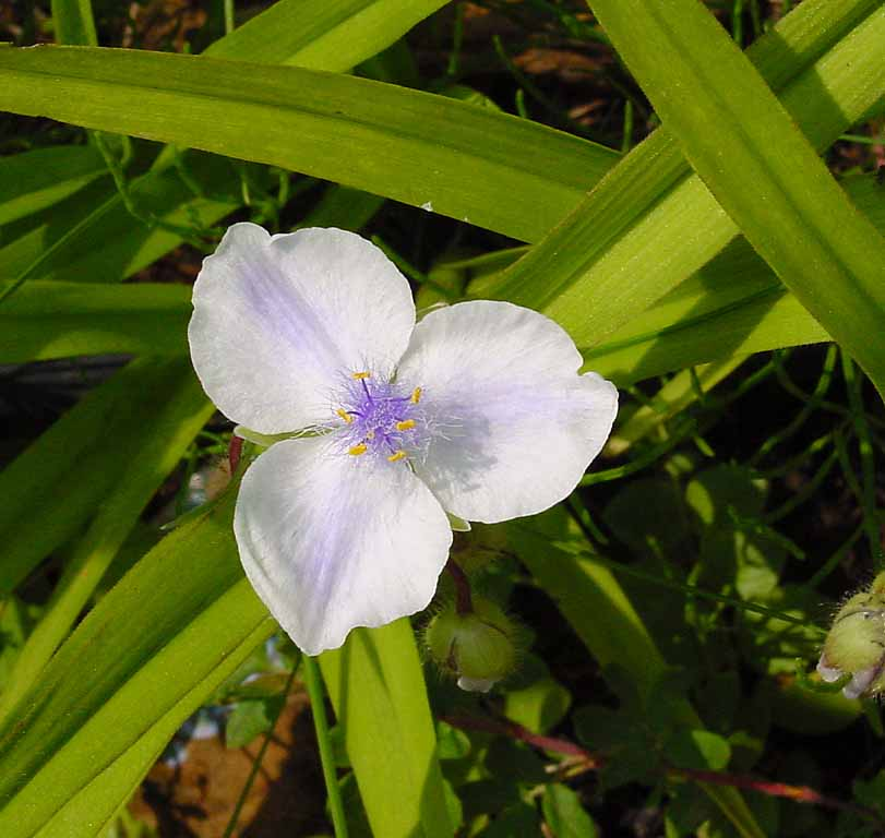 Spiderwort